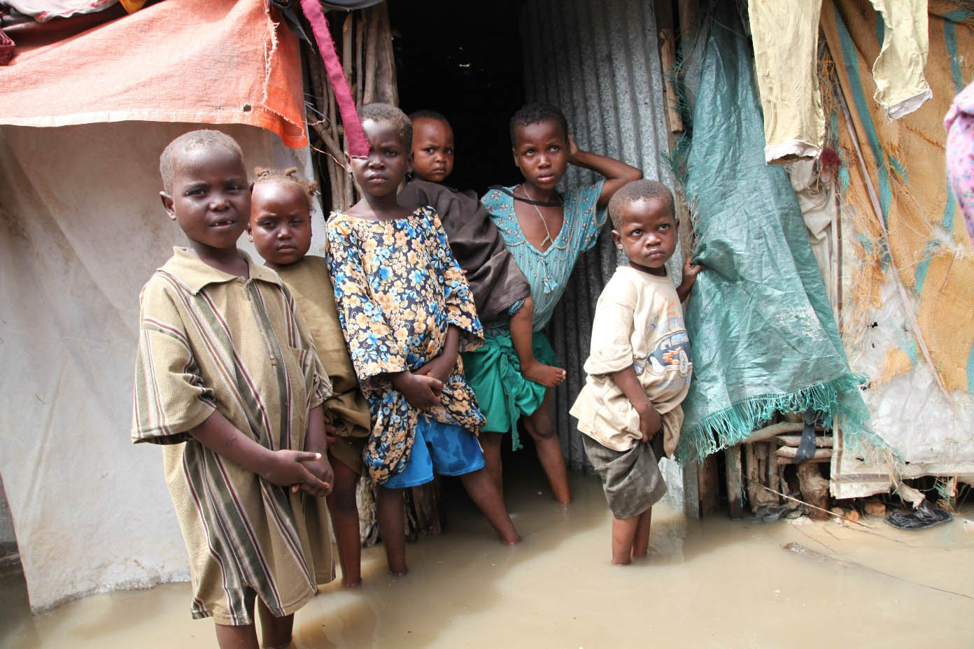 Residents stand outside of their homes at an IDP camp in Kismayo, Somalia, submerged by floods on June 4. As many as 350 families were affected by the heavy rains in the region, which it is feared may lead the outbreak of disease. AMISOM Photo / Mahamud Hassan